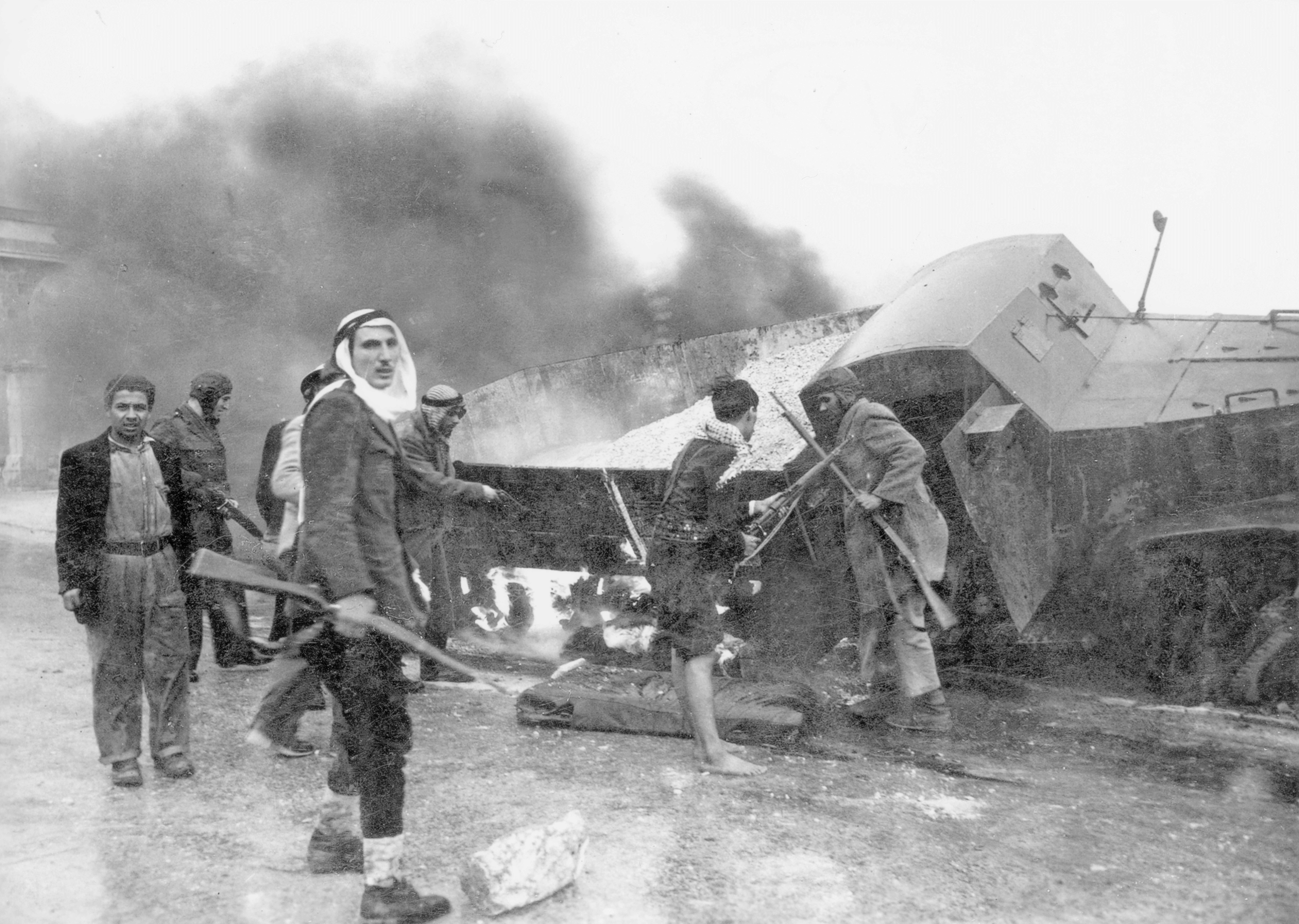 Arab irregulars, along with a burnt truck on the way to Jerusalem